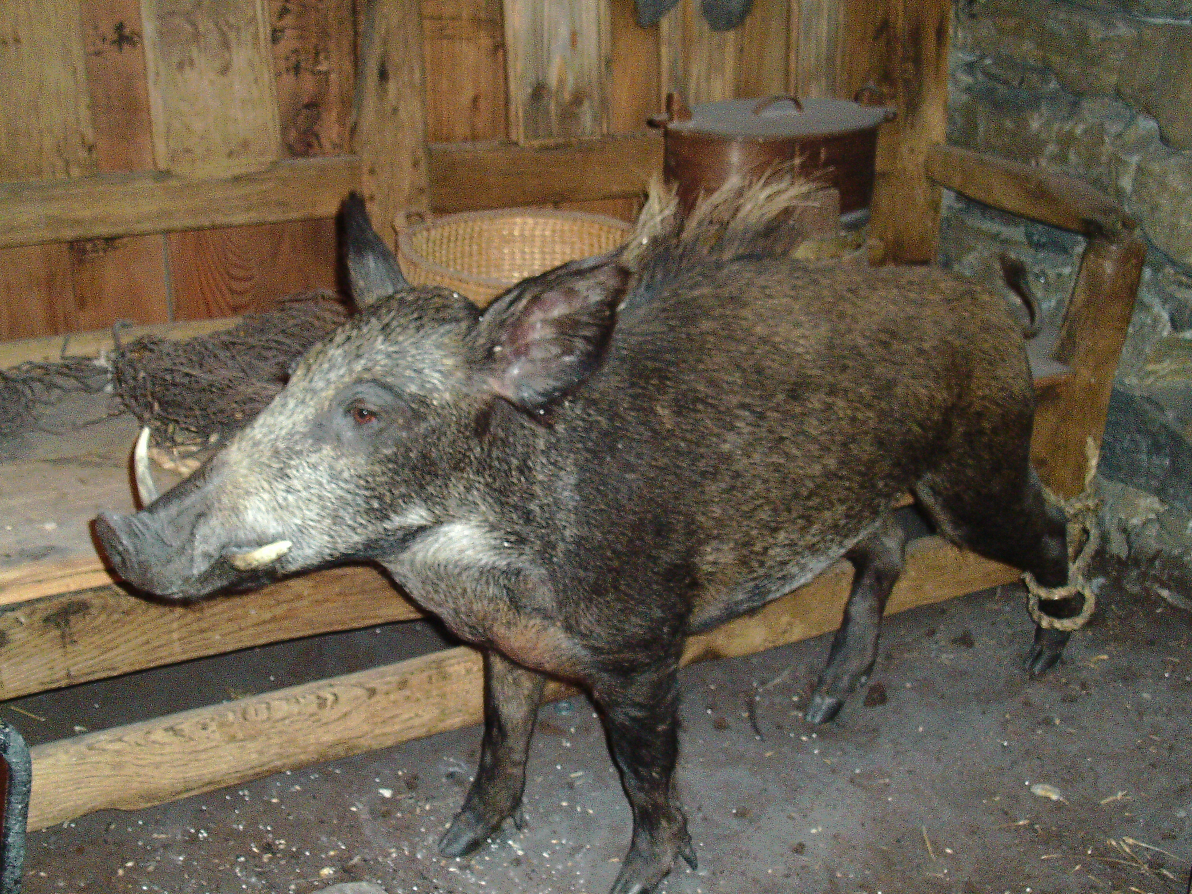 A reconstruction of a grice, an extinct breed of pig, at the Shetland Museum, Lerwick